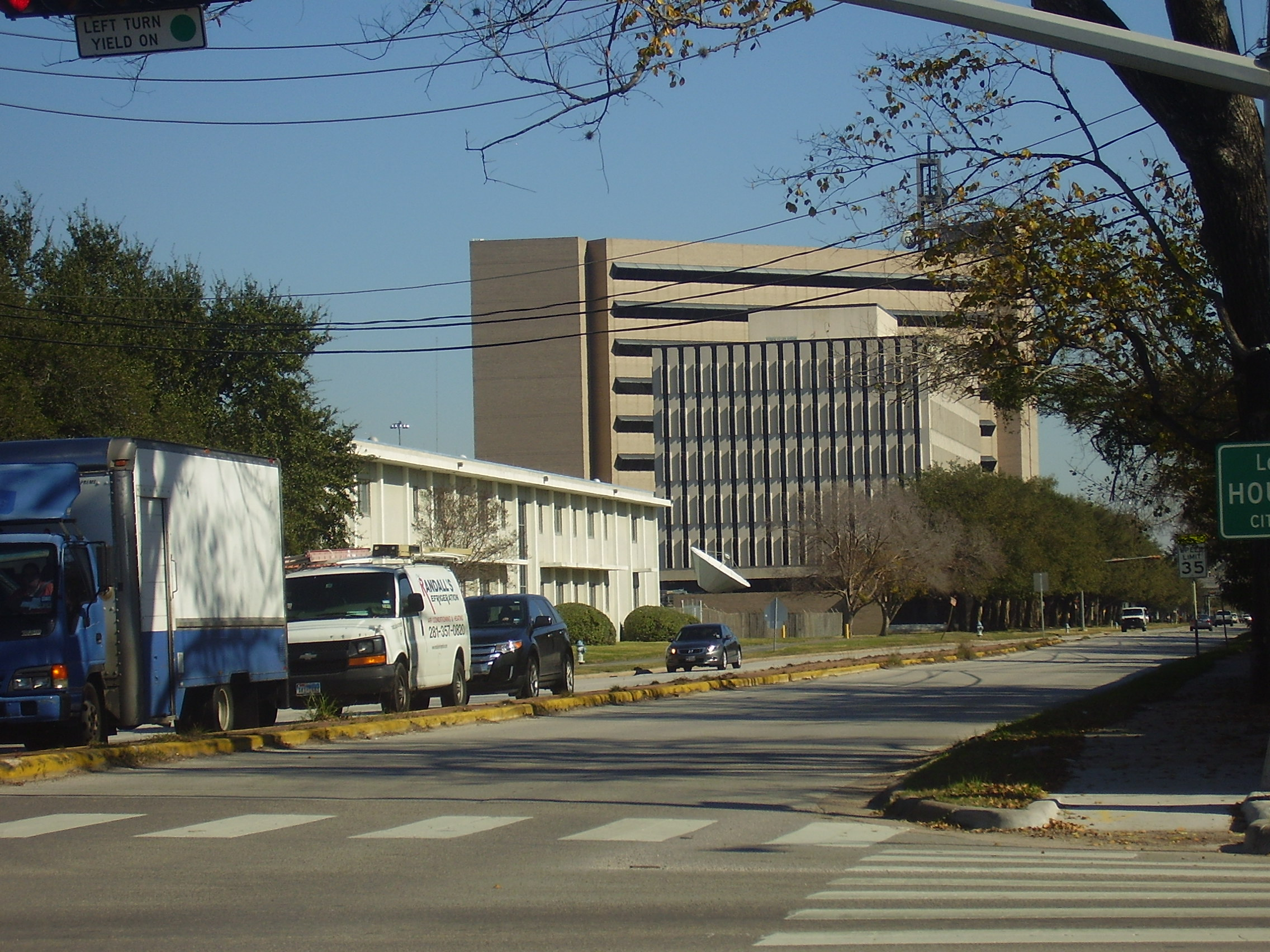 Chevron offices